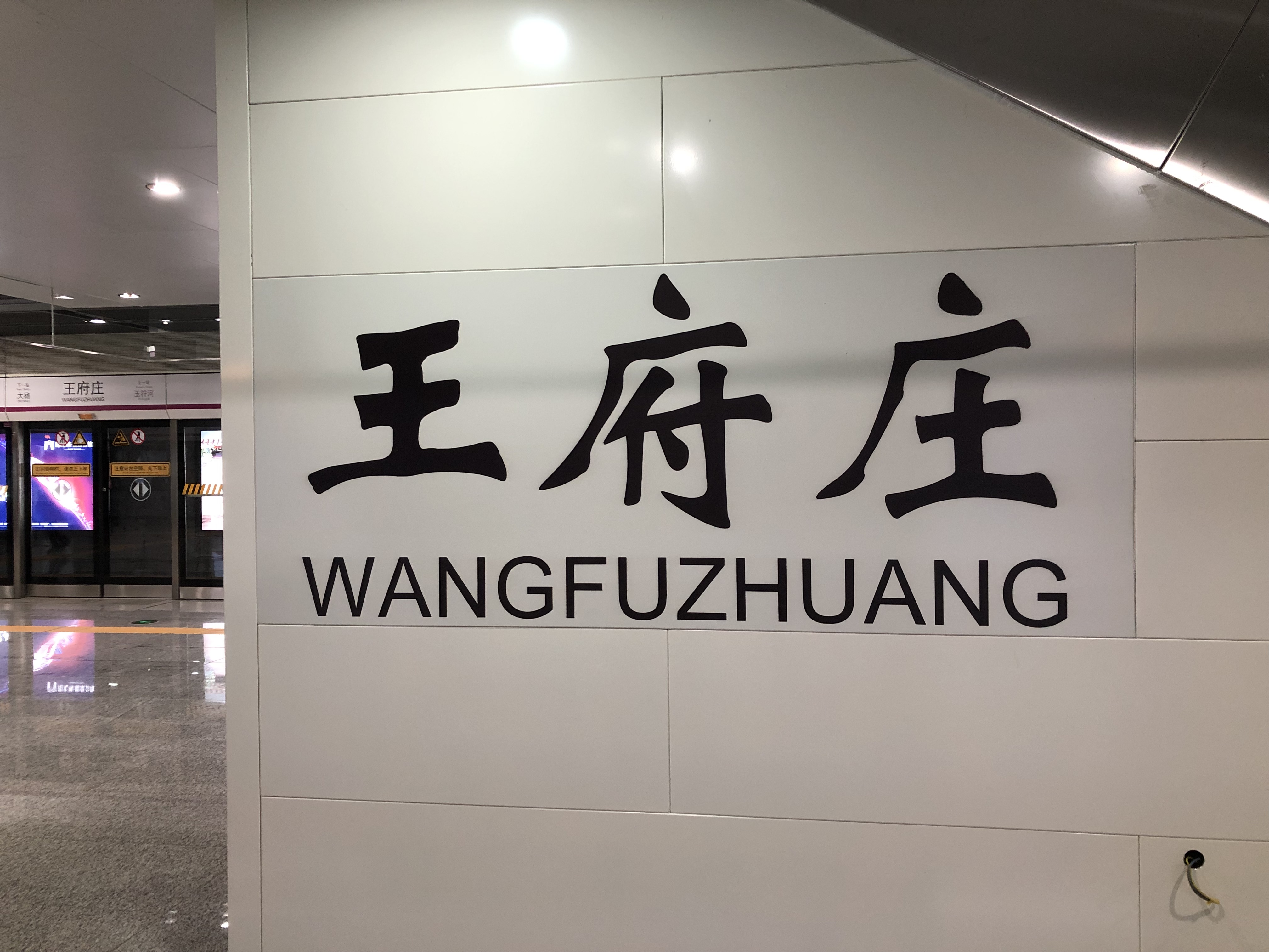 Wangfuzhuang Station.